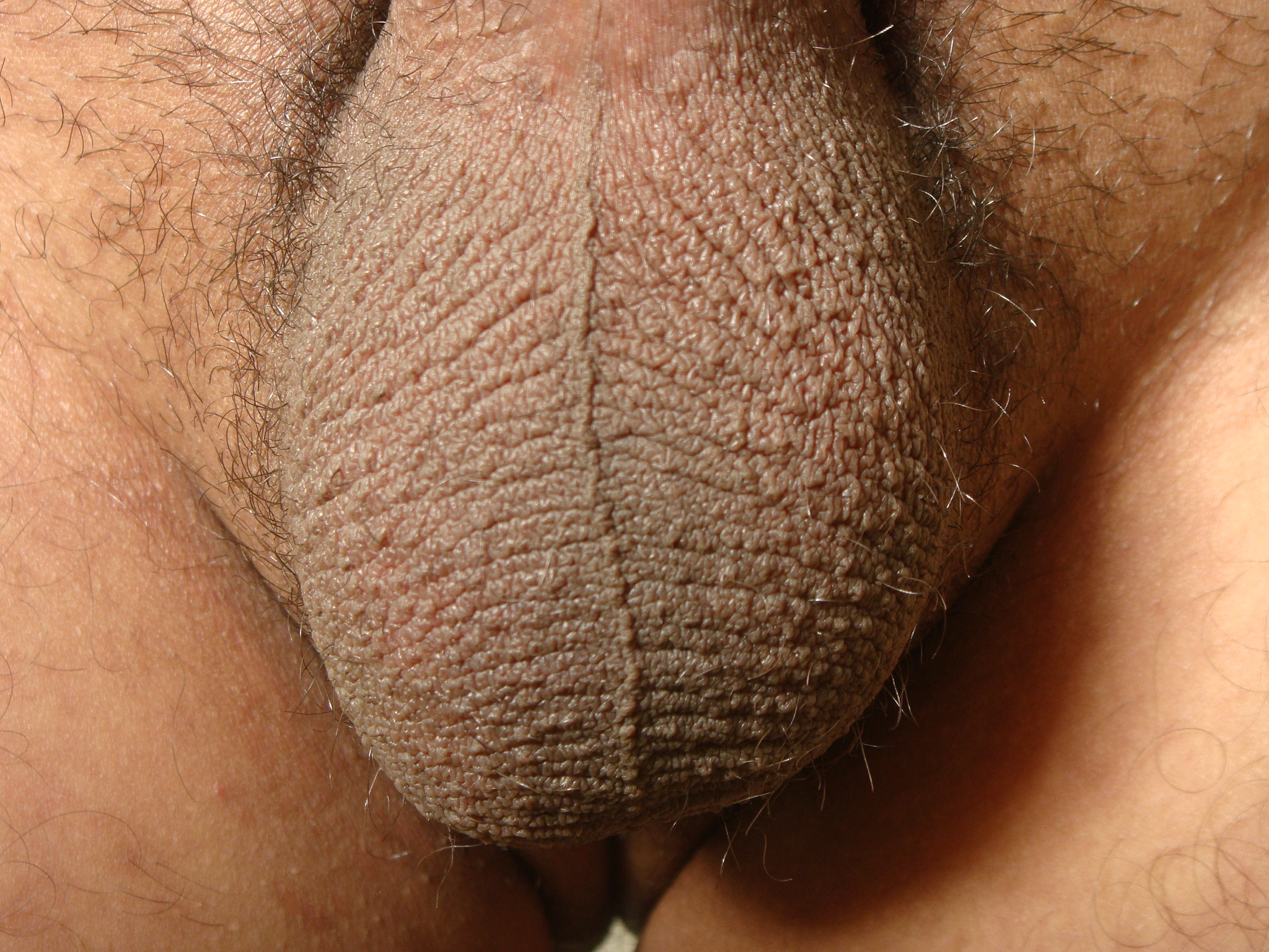 Human Scrotum is a thick but permeable skin sac lined with muscle from inside. Visible in image is a scrotum containing testicles. The wrinkled skin shows its origin. It is wellplaced between thighs. The thigh muscles are strong enough to protect it from any external blow. The thigh muscles though can give a blow under violent condition of extreme movements.